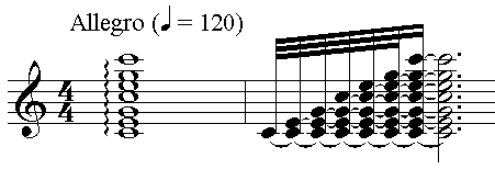 Arpeggio in C major